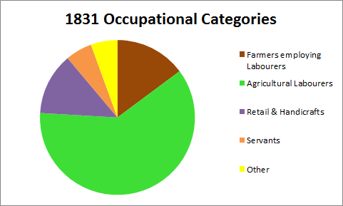 1831 Division in Industry, Redlingfield 1831